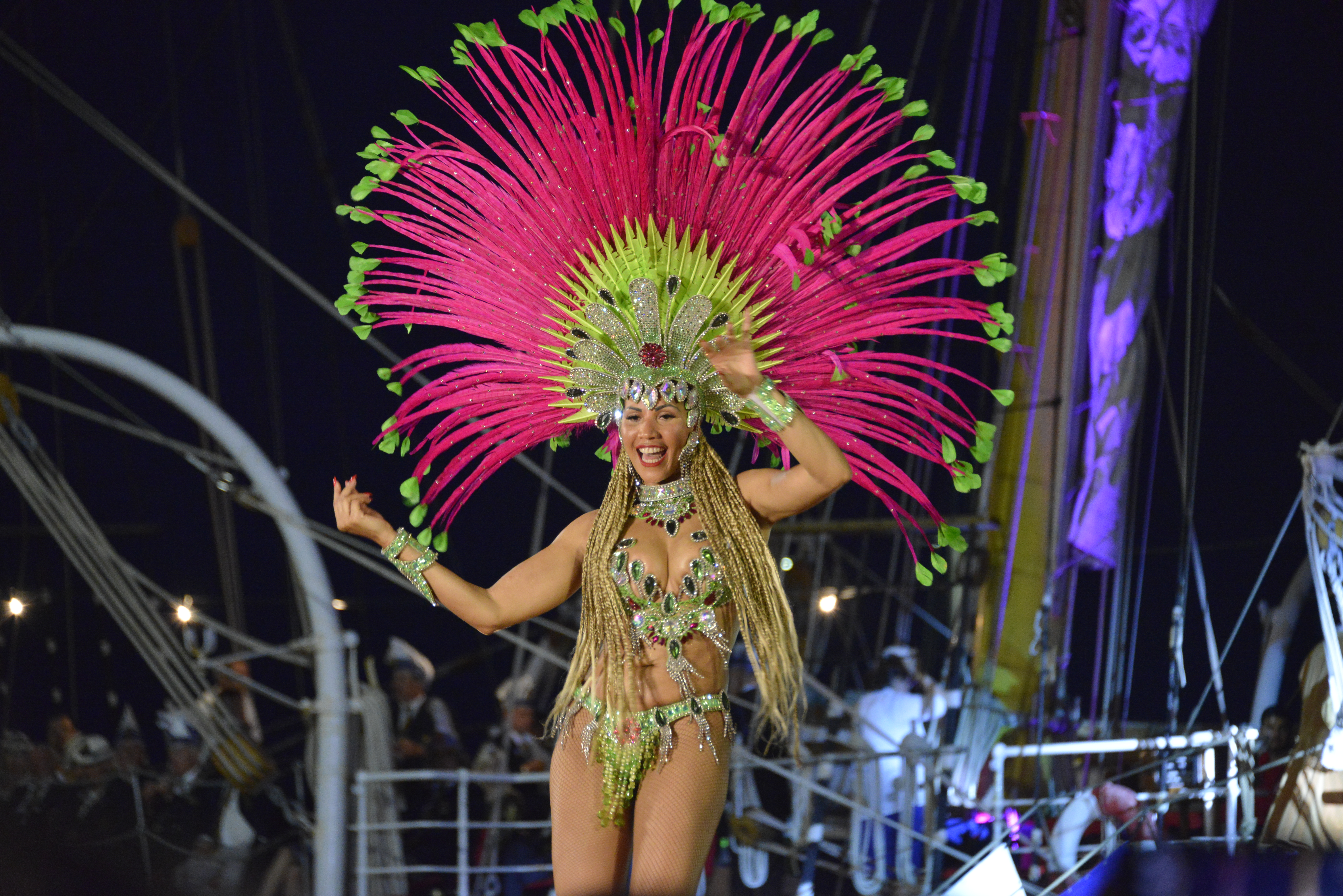 Carnival in Tivat in 2019, with the main stage in front of the ship "Jadran"